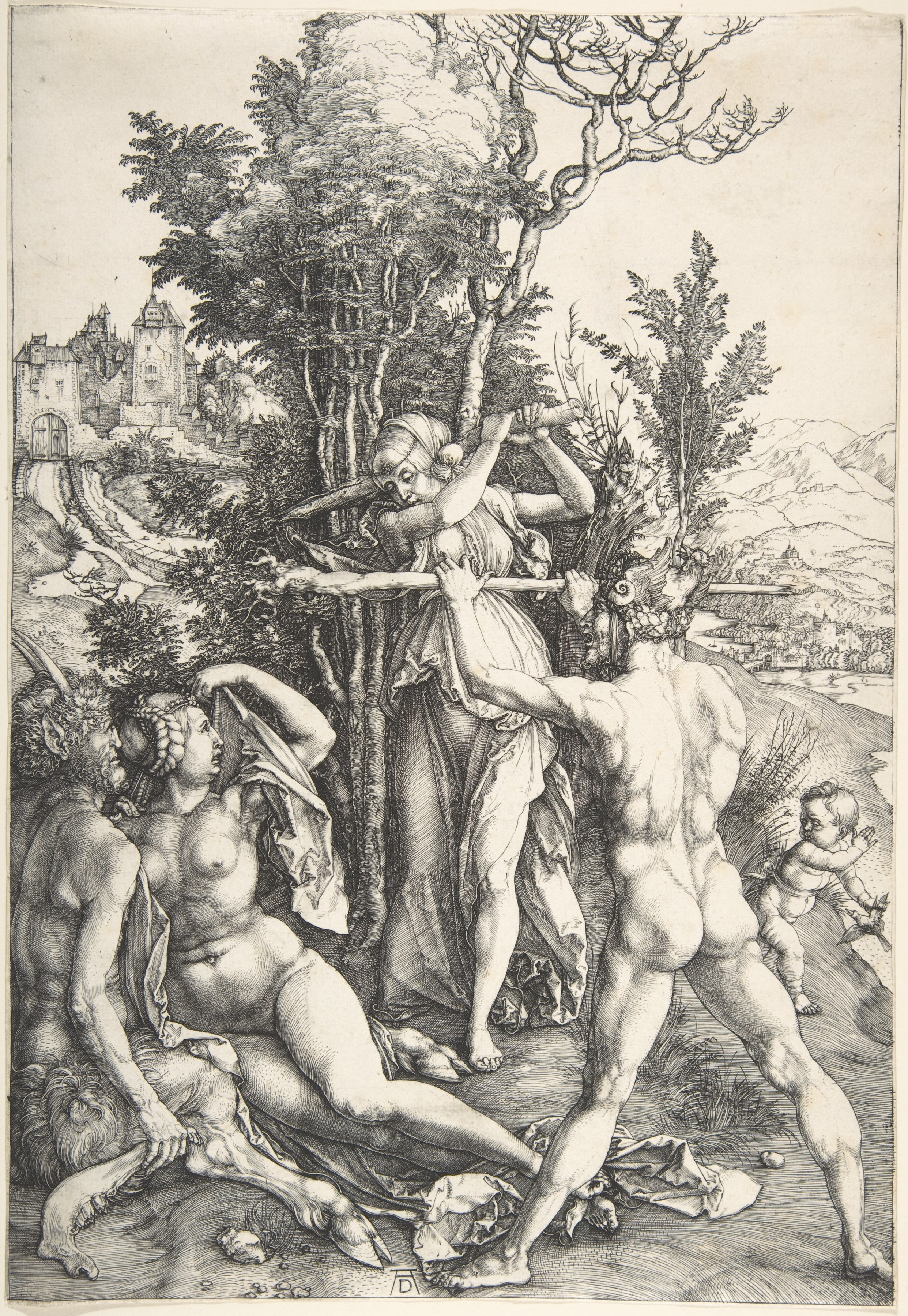 Print; Prints